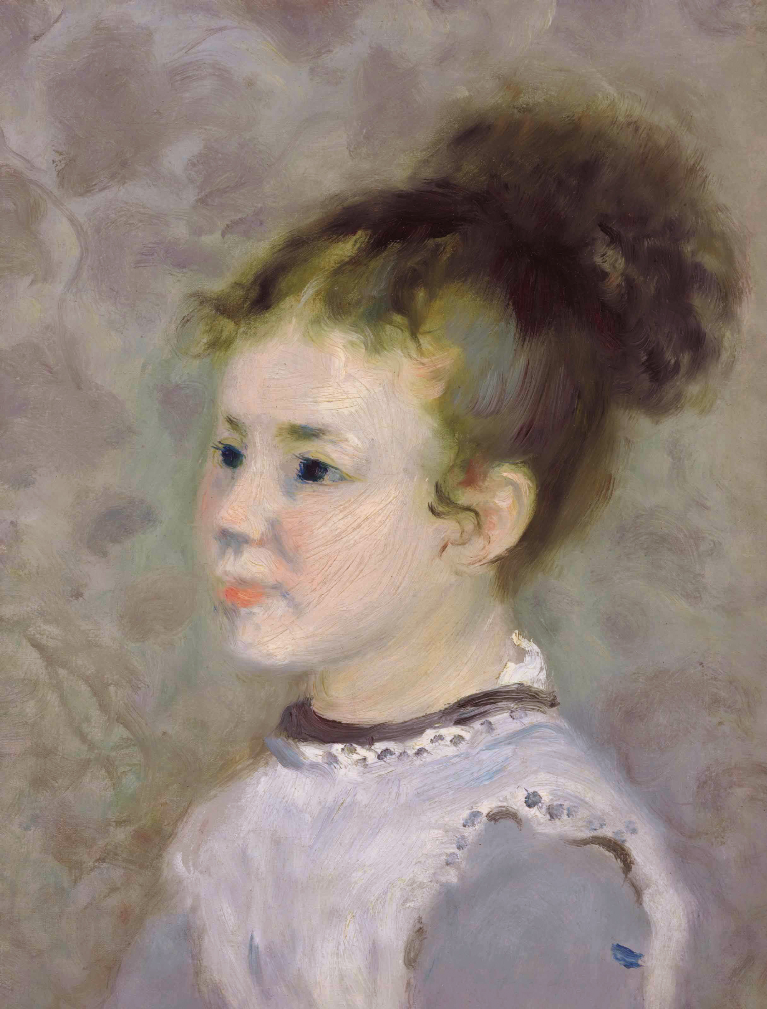 Jeanne Sisley oil on canvas 36.5 x 28 cm 1875